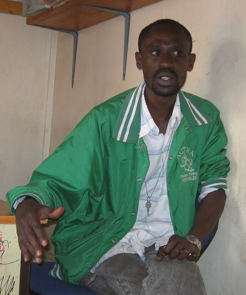 Robert Matumbai from Kalamashaka in Korogocho, Nairobi 2008